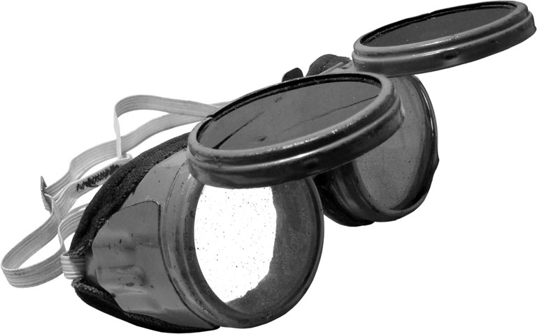 Goggles